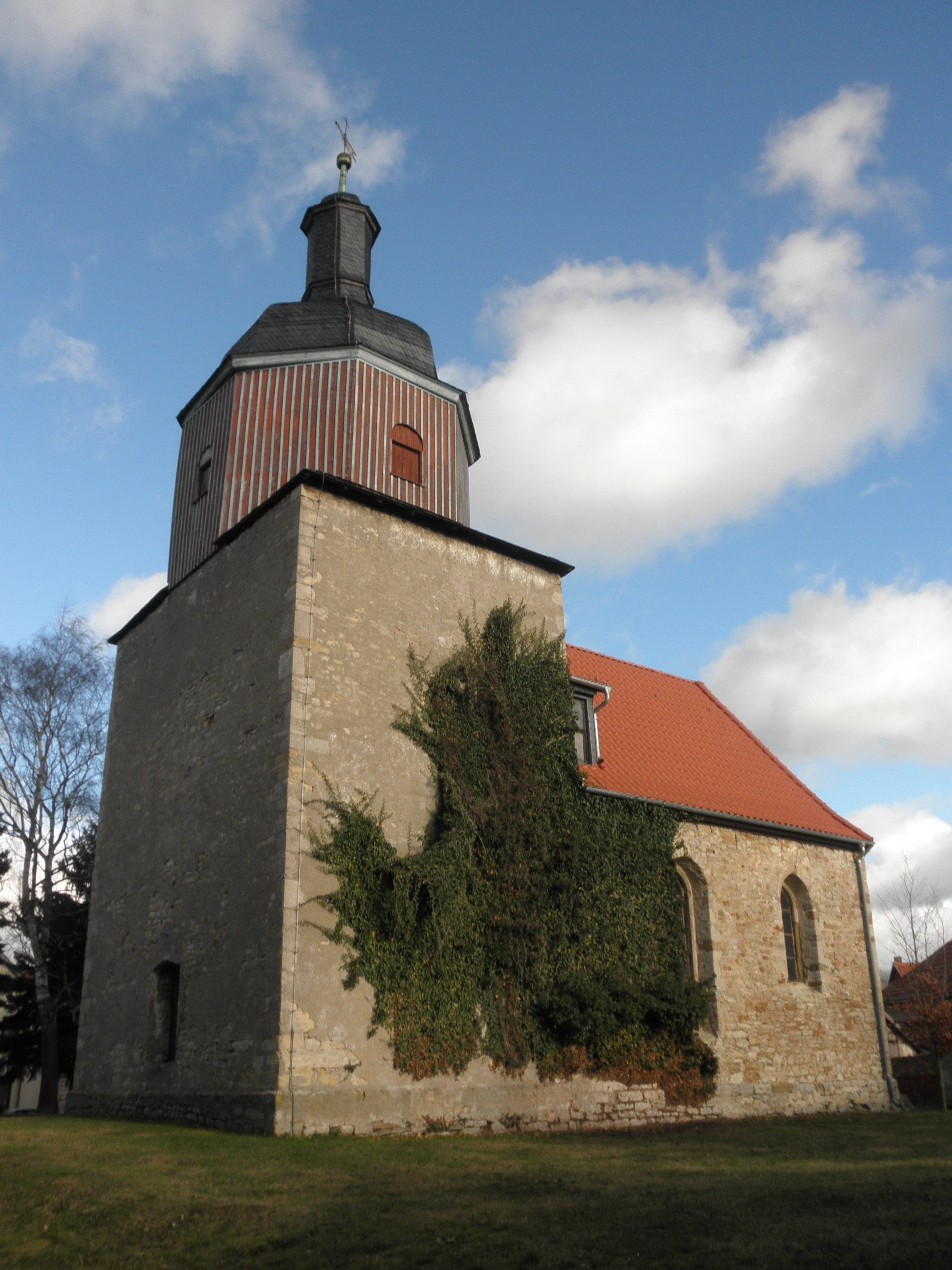 Church in Mehrstedt (Schlotheim) in Thuringia